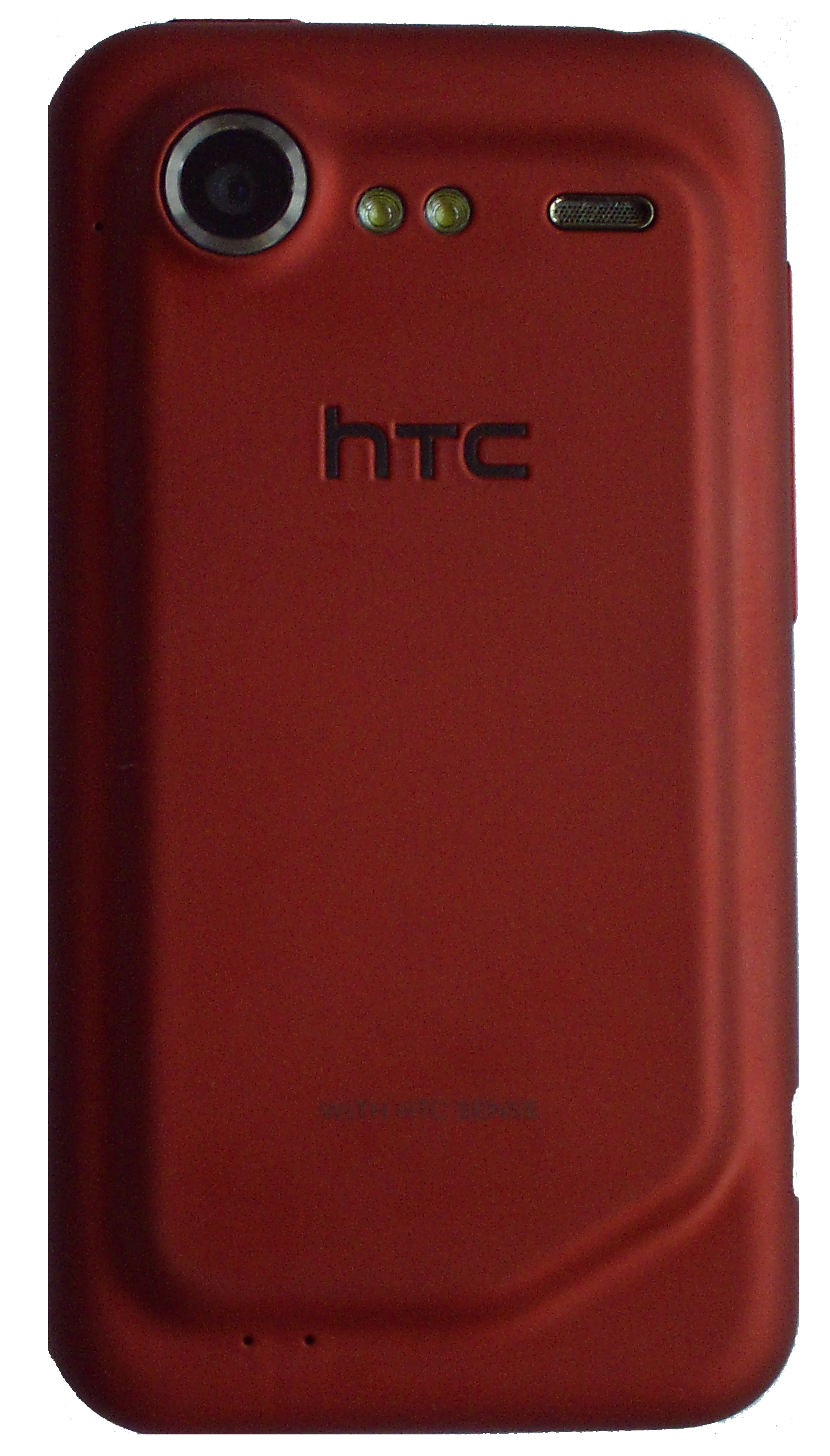 A red HTC Incredible S.